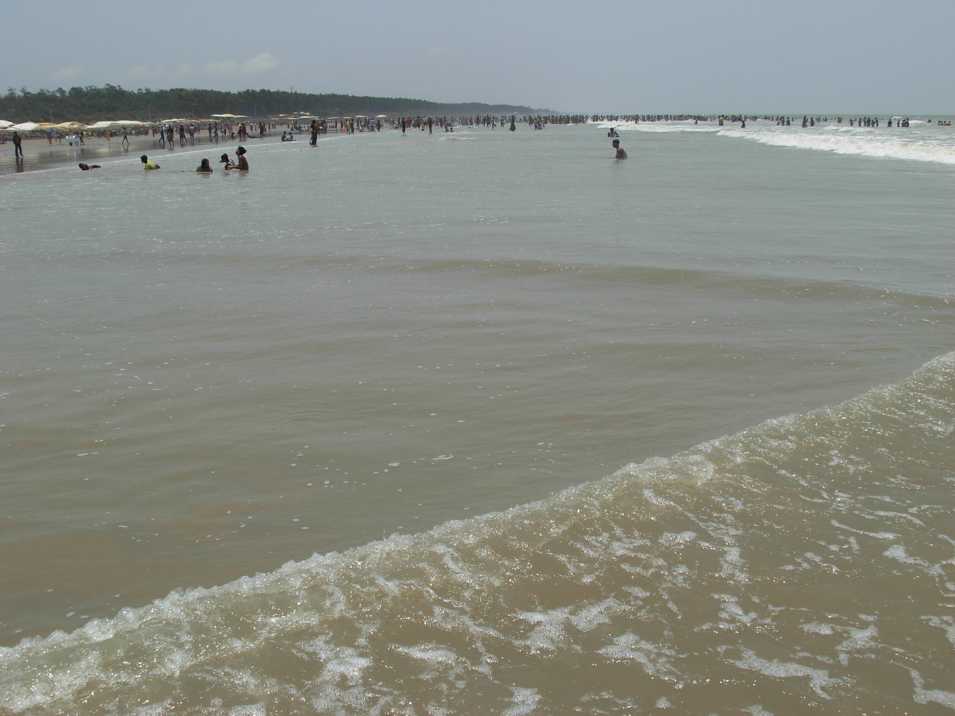 Main sea beach of New Digha. Digha is one of the very popular, crowded and affordable sea beach in India.